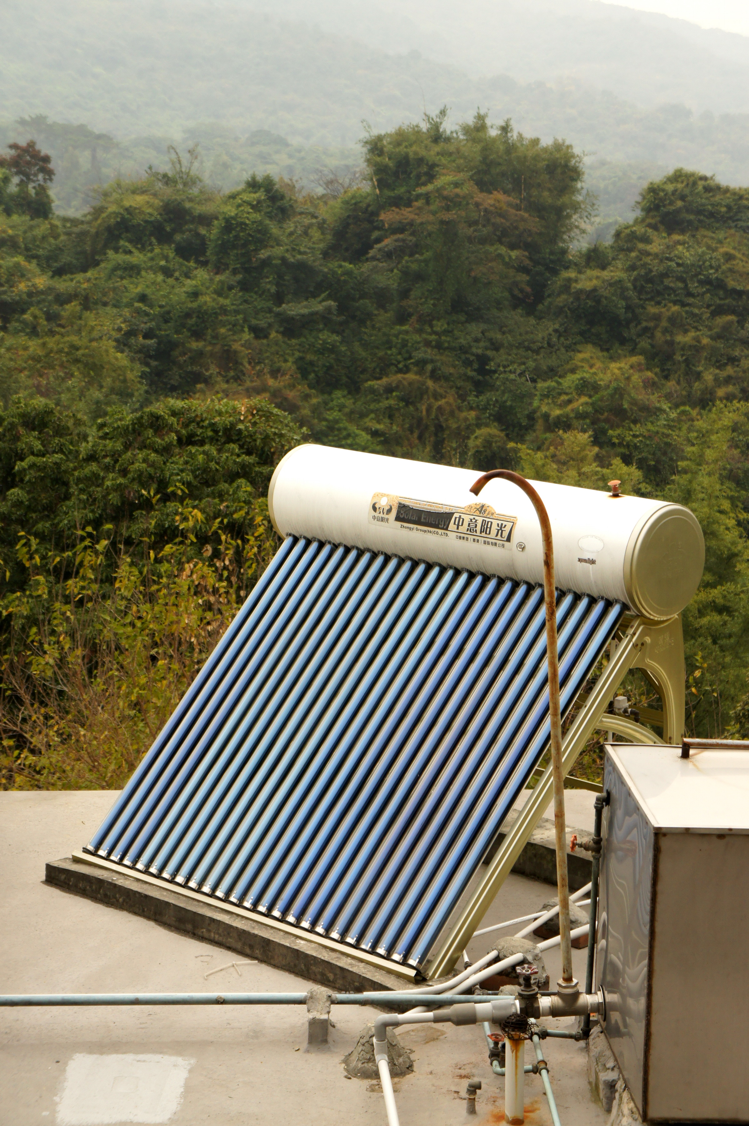 A roof-mounted solar water heater.